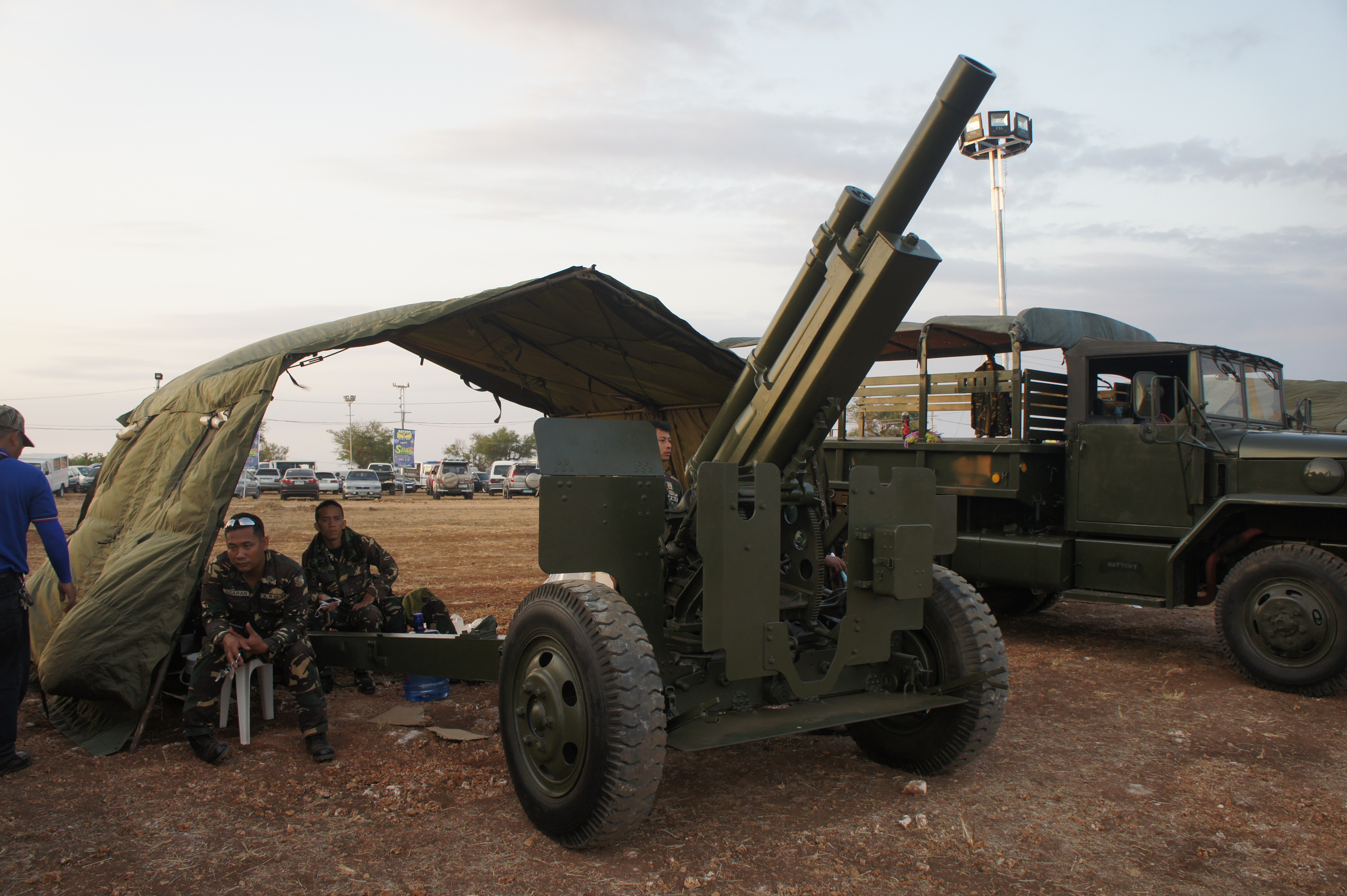 A Philippine Army M101 105-mm towed howitzer on static display during the Sillag Festival in Poro Point, San Fernando, La Union.